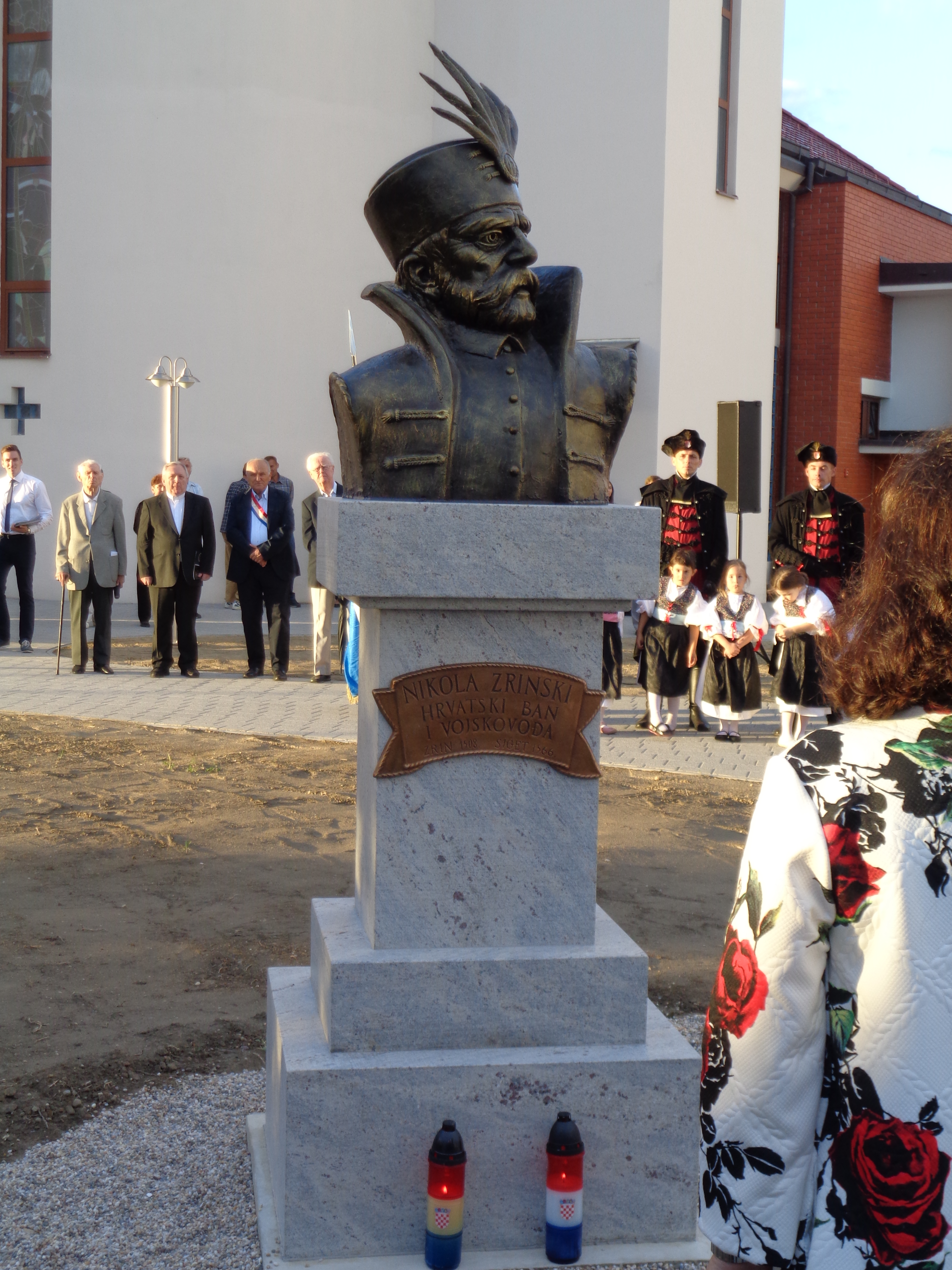 450th Anniversary of the Battle of Szigetvár: Nikola Šubić Zrinski bust in Šenkovec, Međimurje County, Croatia